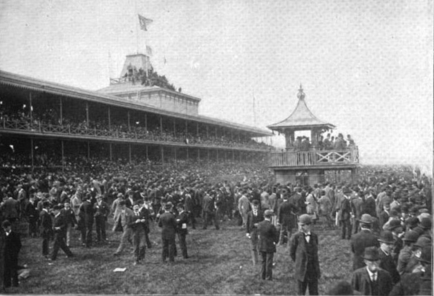 Depicted place: Gravesend Race Track